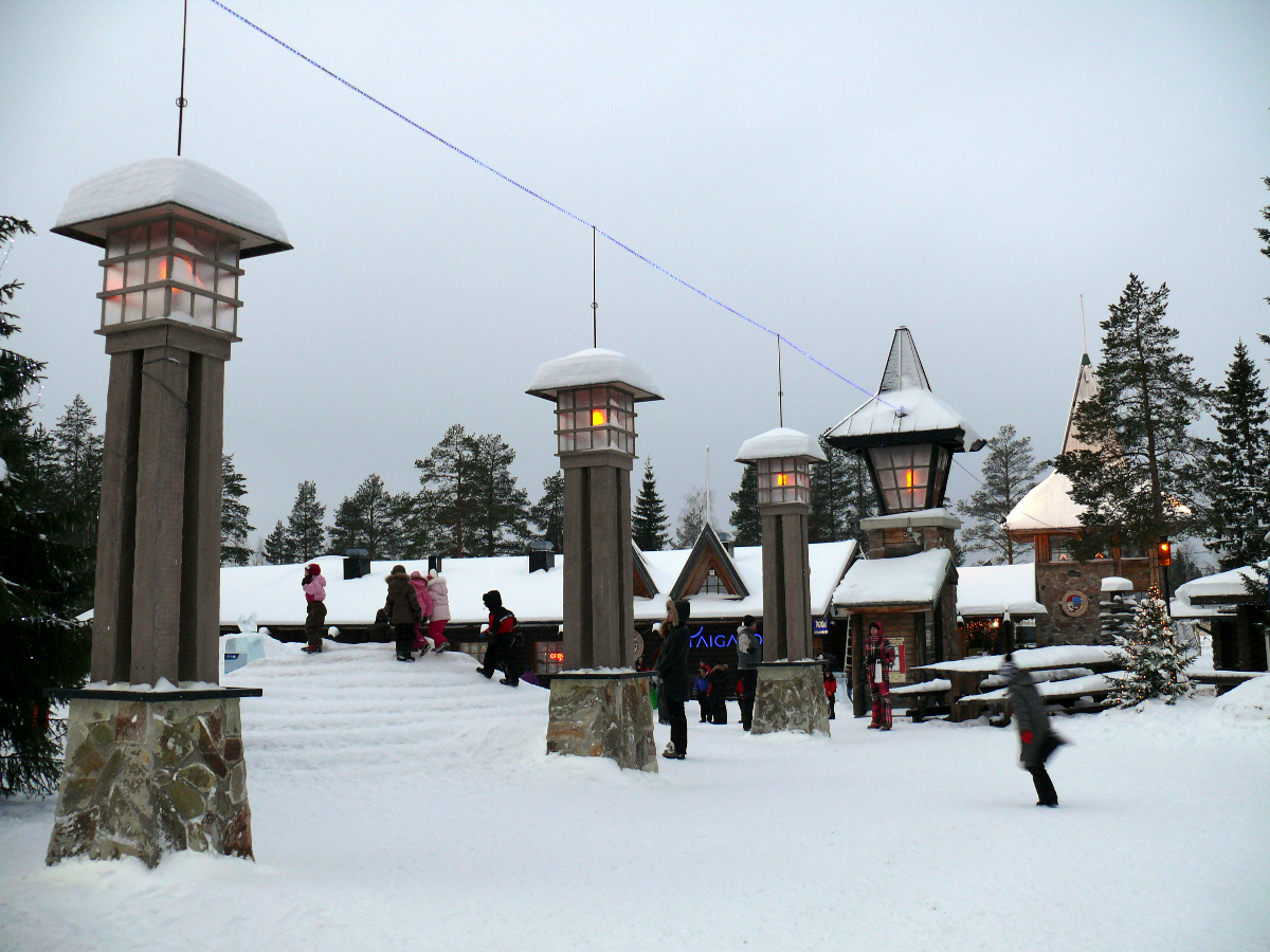 Arctic Circle